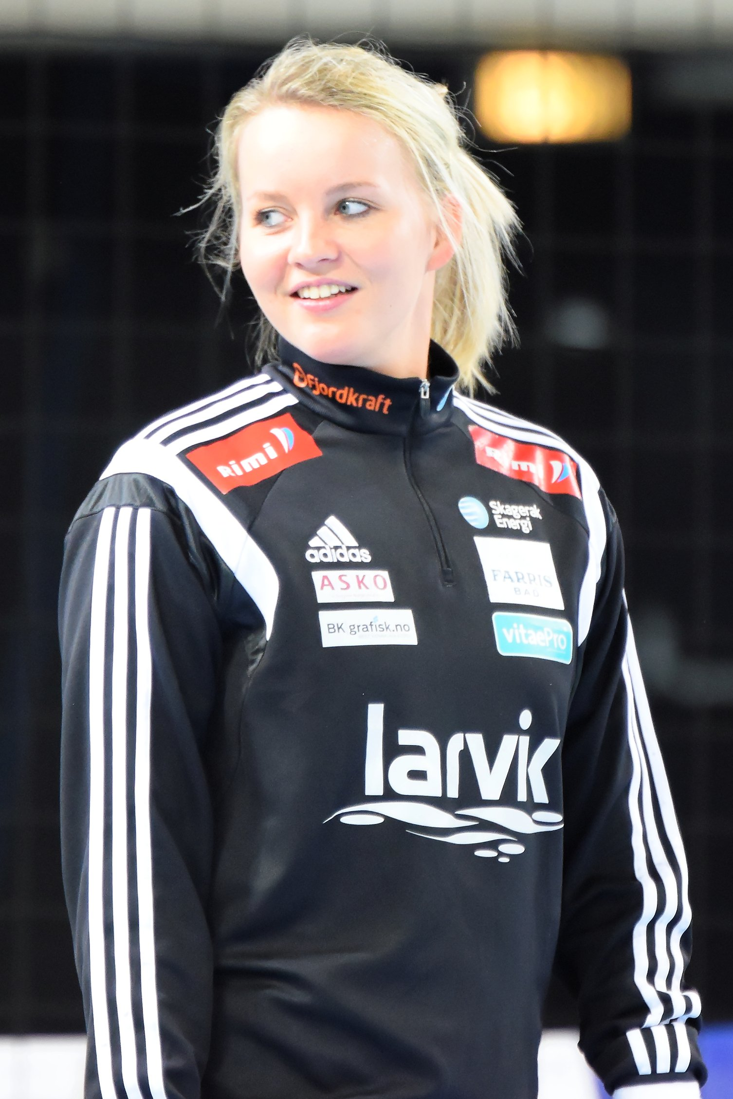 Sandra Toft - EHF Champion's League, Metz Handball / Larvik HK - 15 november 2014.